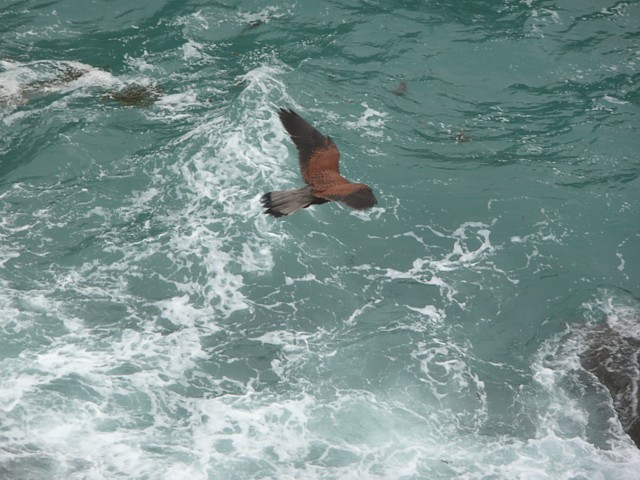 Coastal Kestrel at Tintagel Seen from above whilst I was climbing the steps up to the castle.